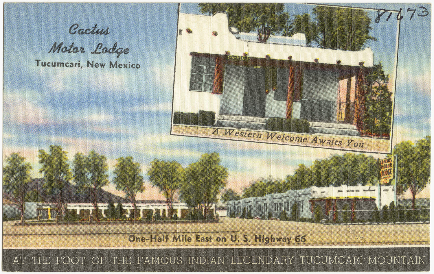 File name: 06_10_015713 Title: Cactus Motor Lodge, Tucumcari, New Mexico. One-half mile East on U.S. Highway 66, at the foot of the famous Indian legendary Tucumcari Mountain Created/Published: Alfred Mc Garr Adv. Ser., Albuquerque, N. M. Date issued: 1930 - 1945 (approximate) Physical description: 1 print (postcard) : linen texture, color ; 3 1/2 x 5 1/2 in. Genre: Postcards Subjects: Motels Collection: The Tichnor Brothers Collection Location: Boston Public Library, Print Department Rights: No known restrictions Flickr data on 2011-08-18: Camera: Epson Exp10000XL10000 Tags: postcard, tichnor brothers, New Mexico License: CC BY 2.0 User: Boston Public Library